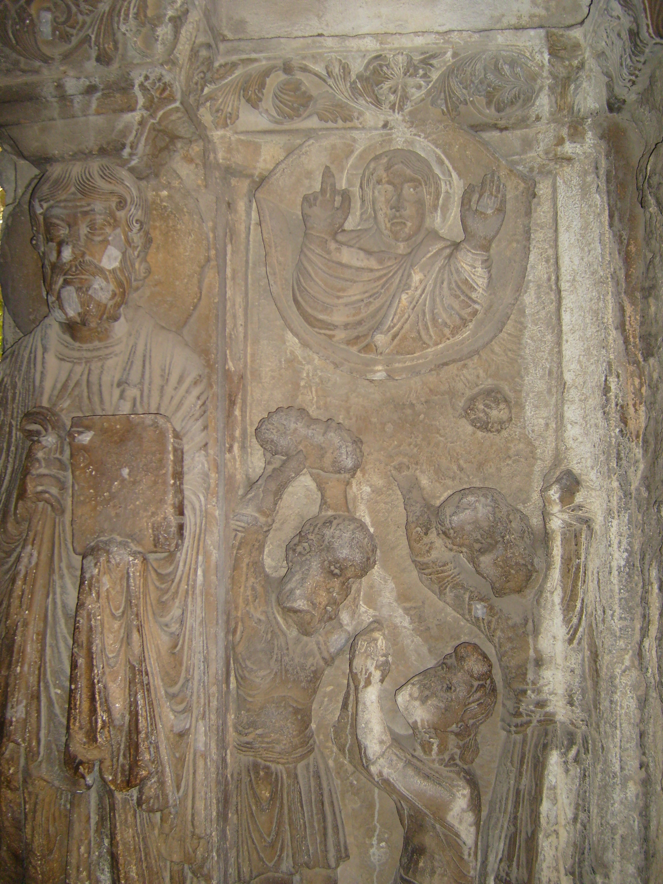 The Stoning of St Stephen, depicted on a column of the cloister of St. Trophime Church in Arles, France